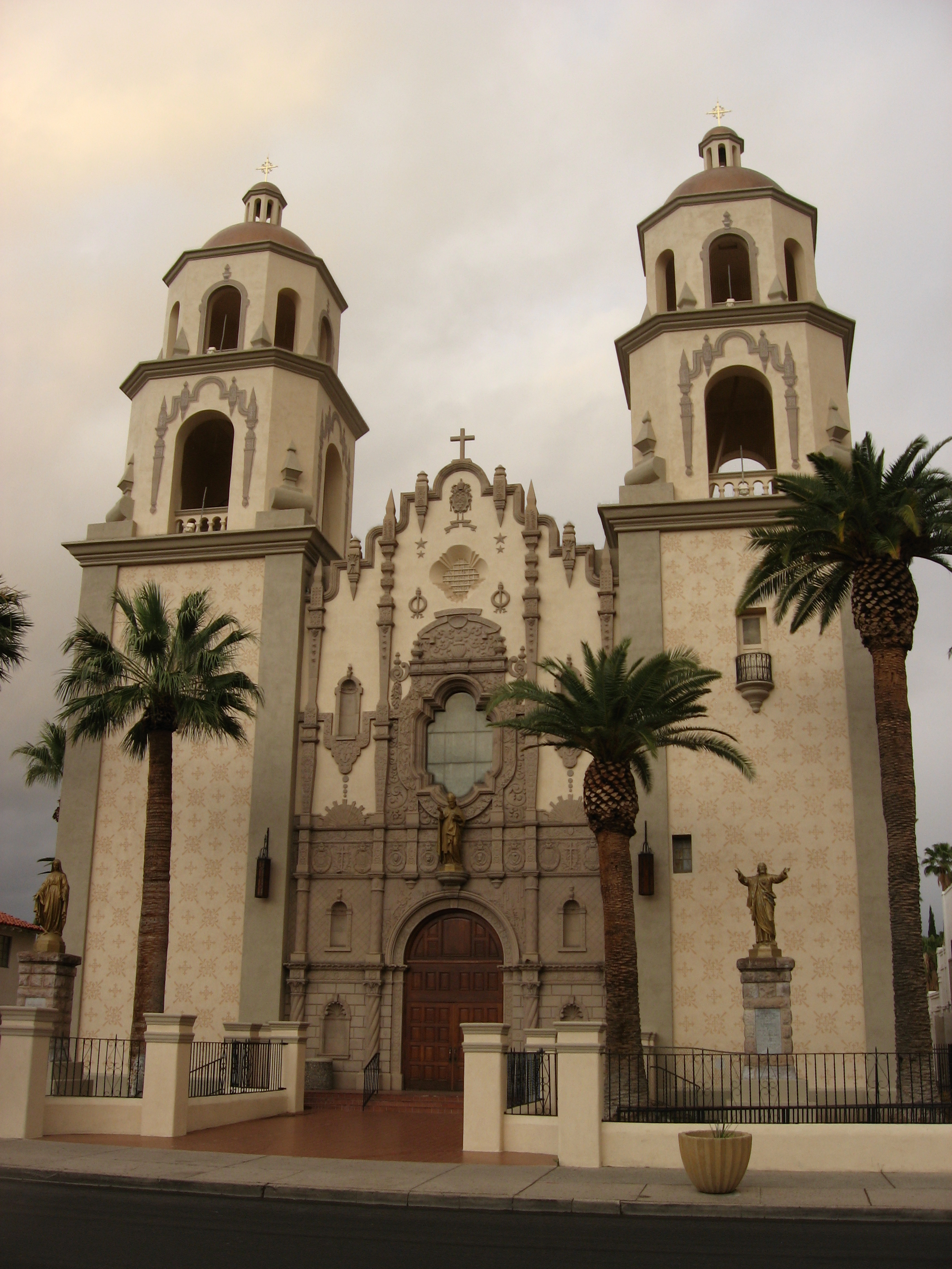 The Cathedral of Saint Augustine (also called Saint Augustine Cathedral) is the mother church of the Roman Catholic Diocese of Tucson. It is located in Tucson, Arizona.